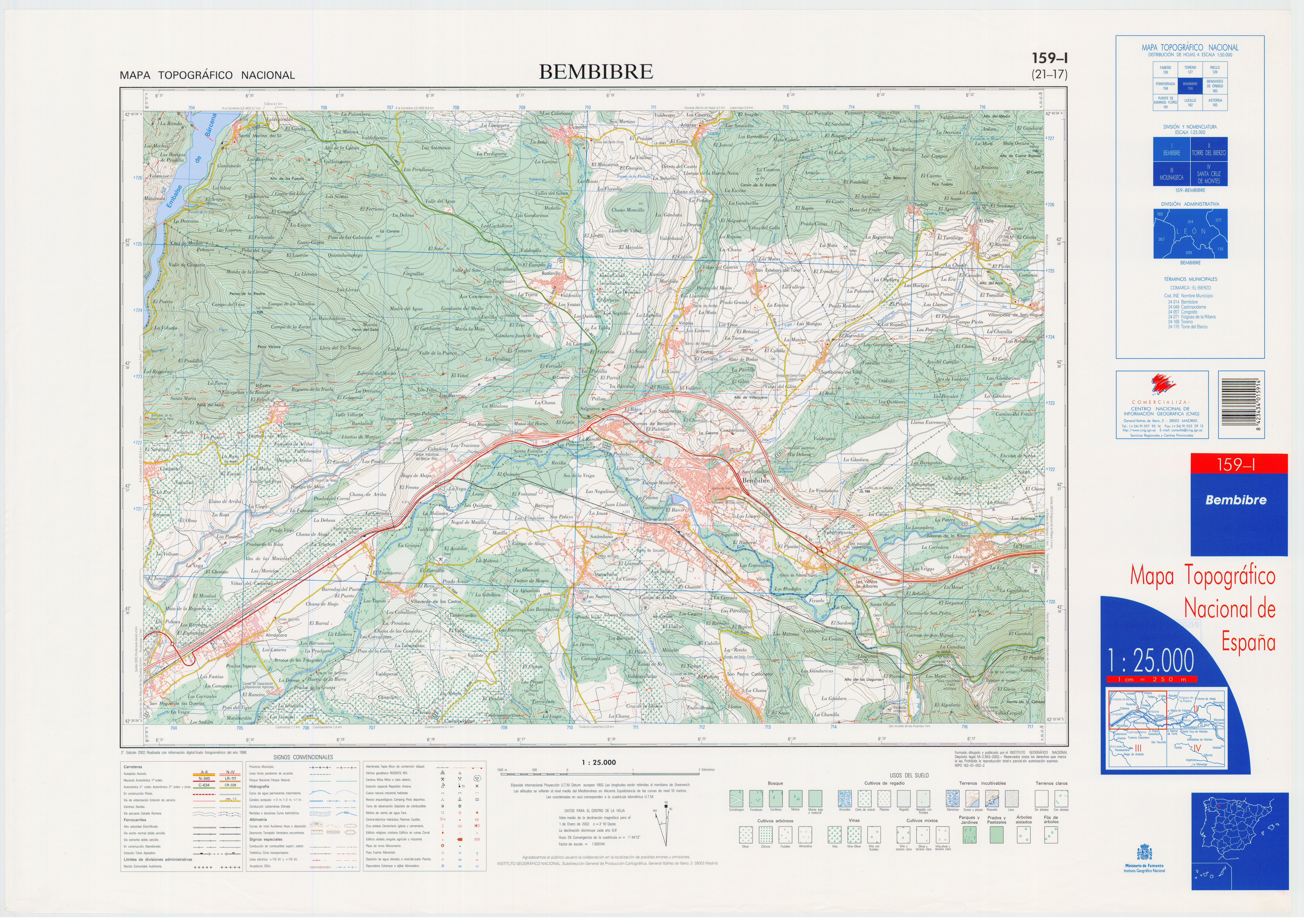 Fragment 0159c1 of the National Topographic Map of Spain in 2002 at a scale of 1:25000 printed and scanned with a resolution of 250 ppi. It shows Bembibre.